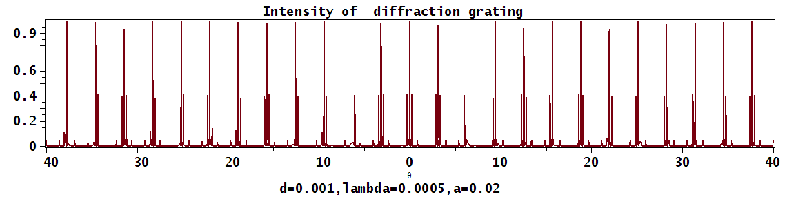 Intensity plot of diffraction grating